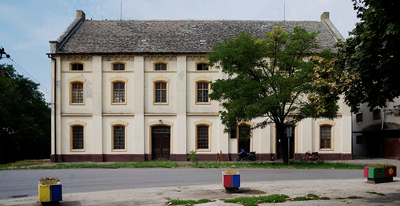 Mill in Perlez, building, 1930.